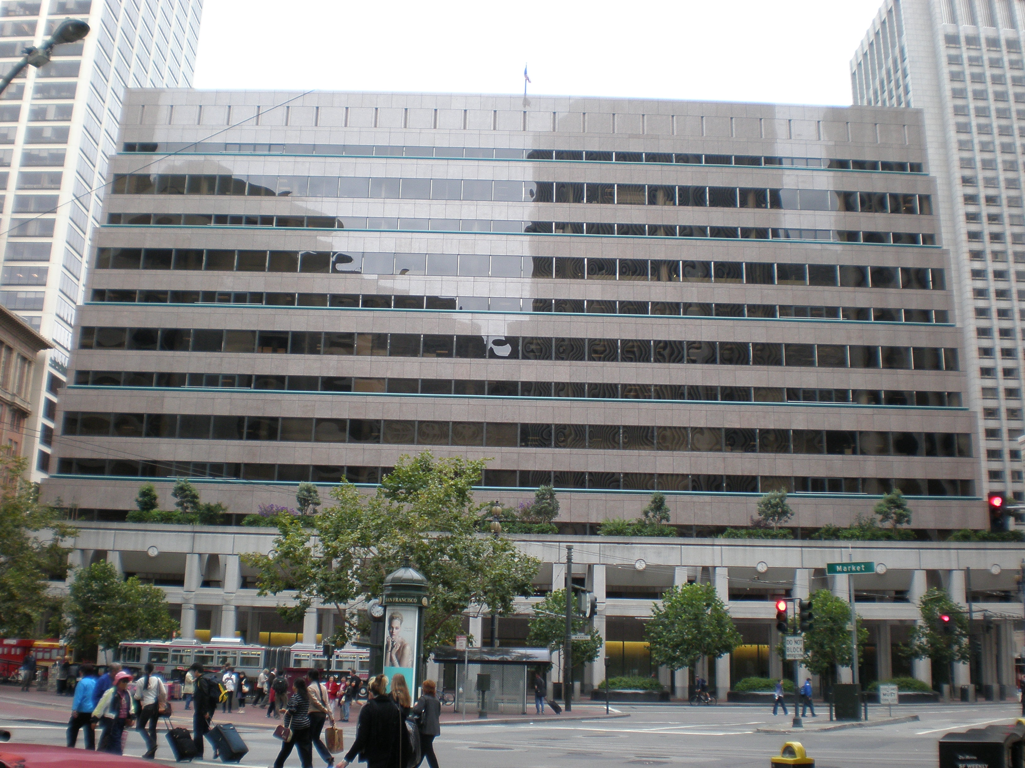 The Federal Reserve Bank of San Francisco at 101 Market Street.